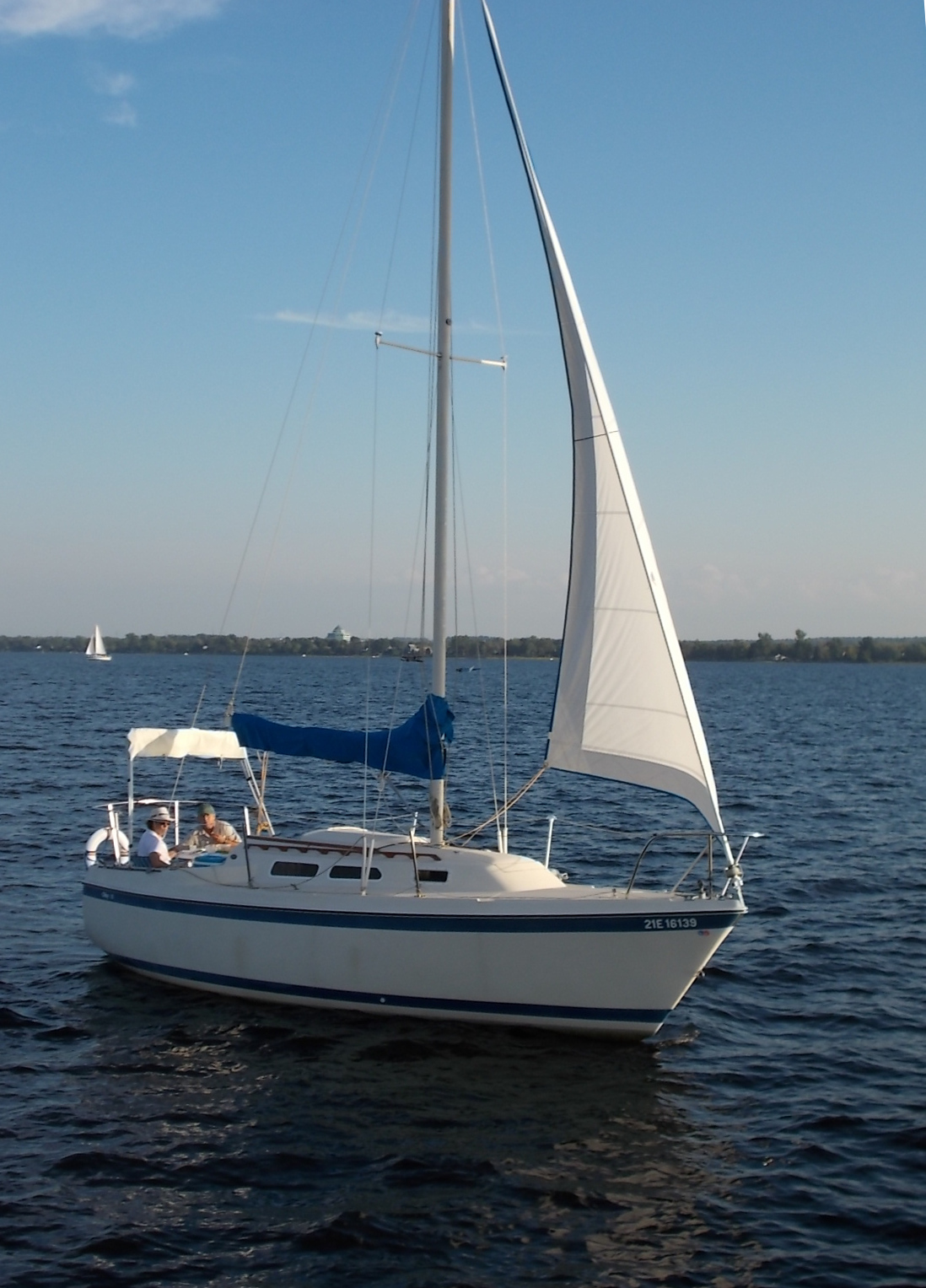 O'Day 25 sailboat on Lac Deschênes, part of the Ottawa River, Ottawa, Ontario, Canada